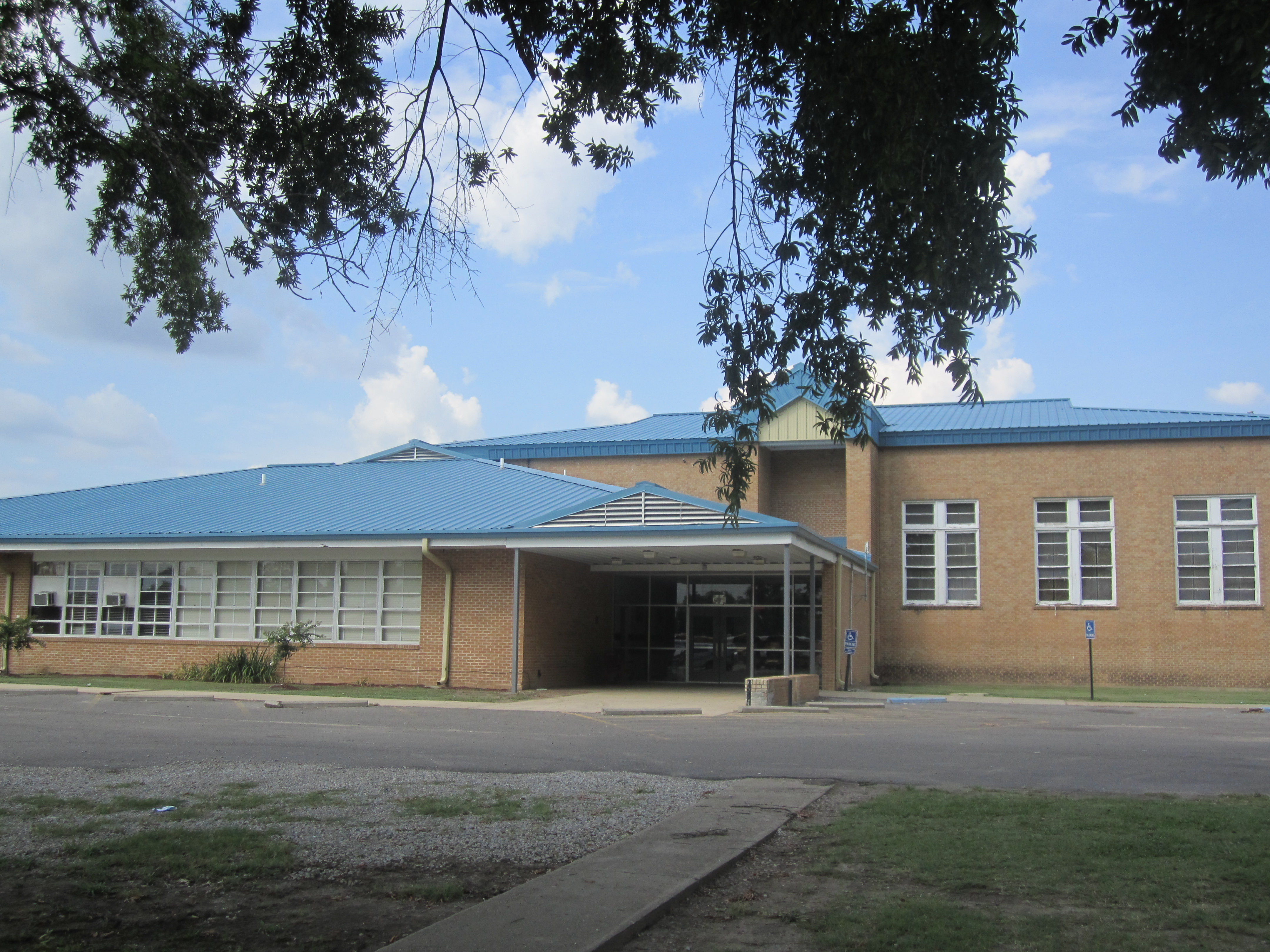 I took photo with Canon camera in St. Joseph, LA.